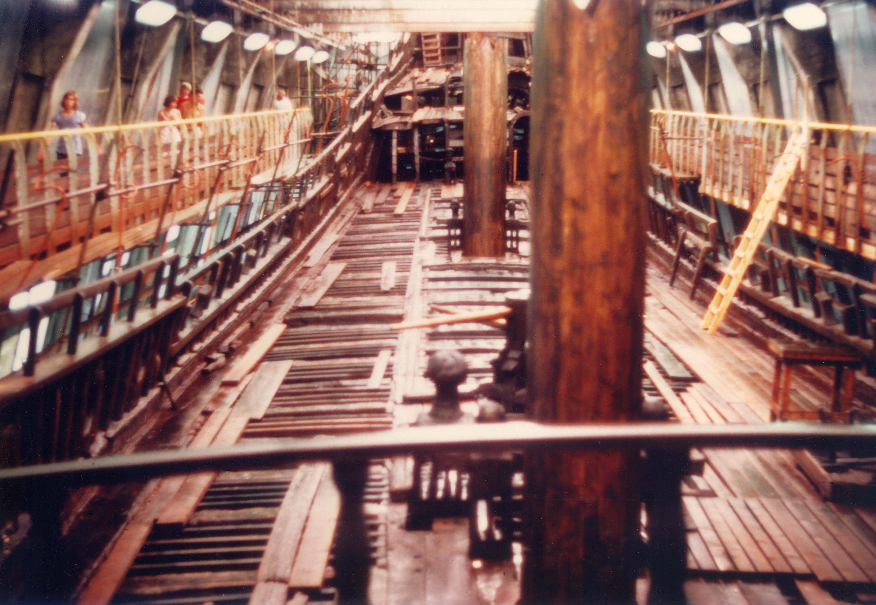 Vasa during the restoration in July 1975. The masts have already been set. The spraying system for preservation still consists of improvised hoses. Visitors can enter the access platform.